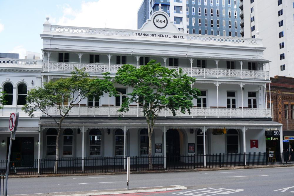 Transcontinental Hotel from North-East (2016)